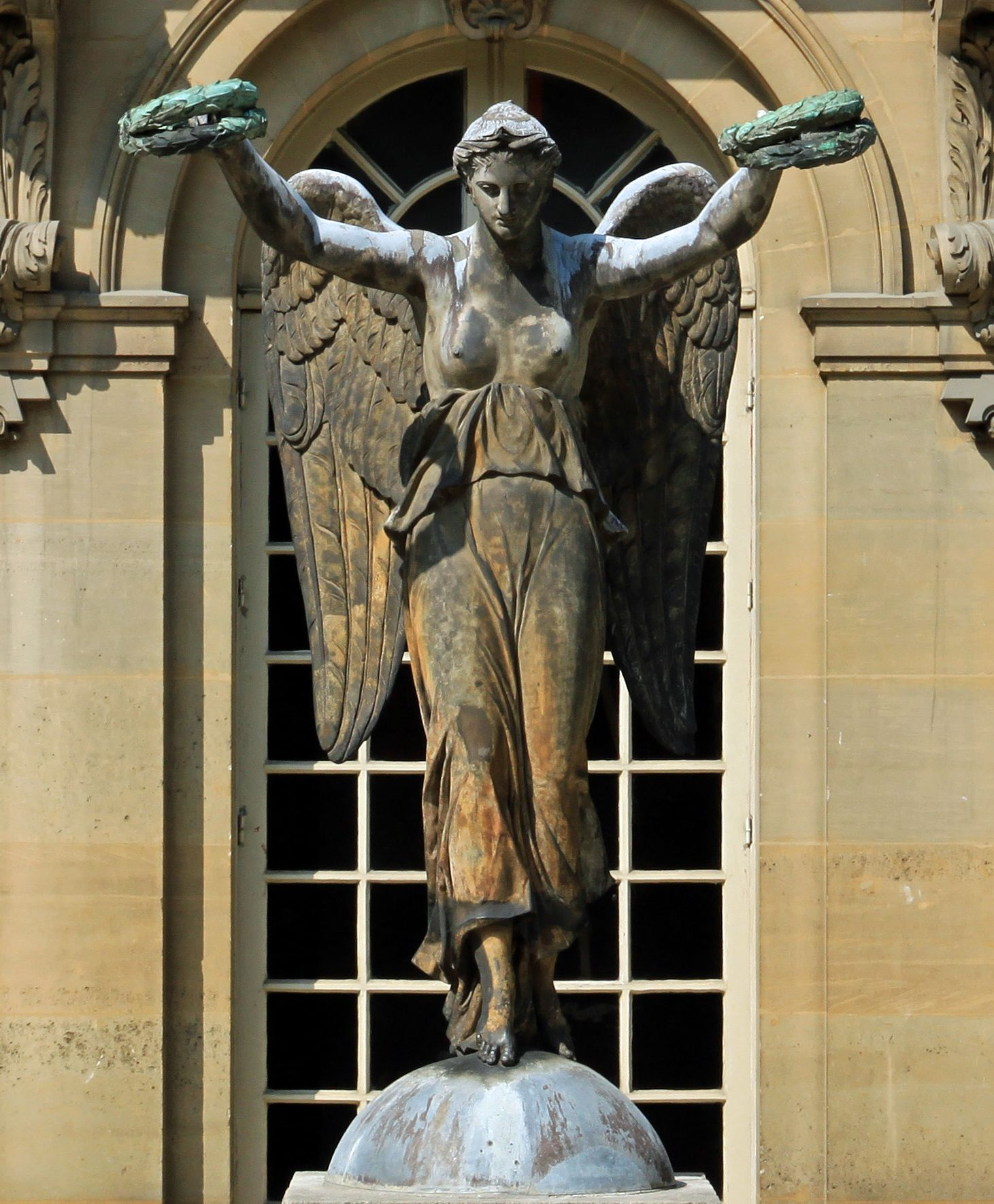 Immortality, by Louis-Simon Boizot (1743-1809). Courtyard of the Victory, Carnavalet museum.